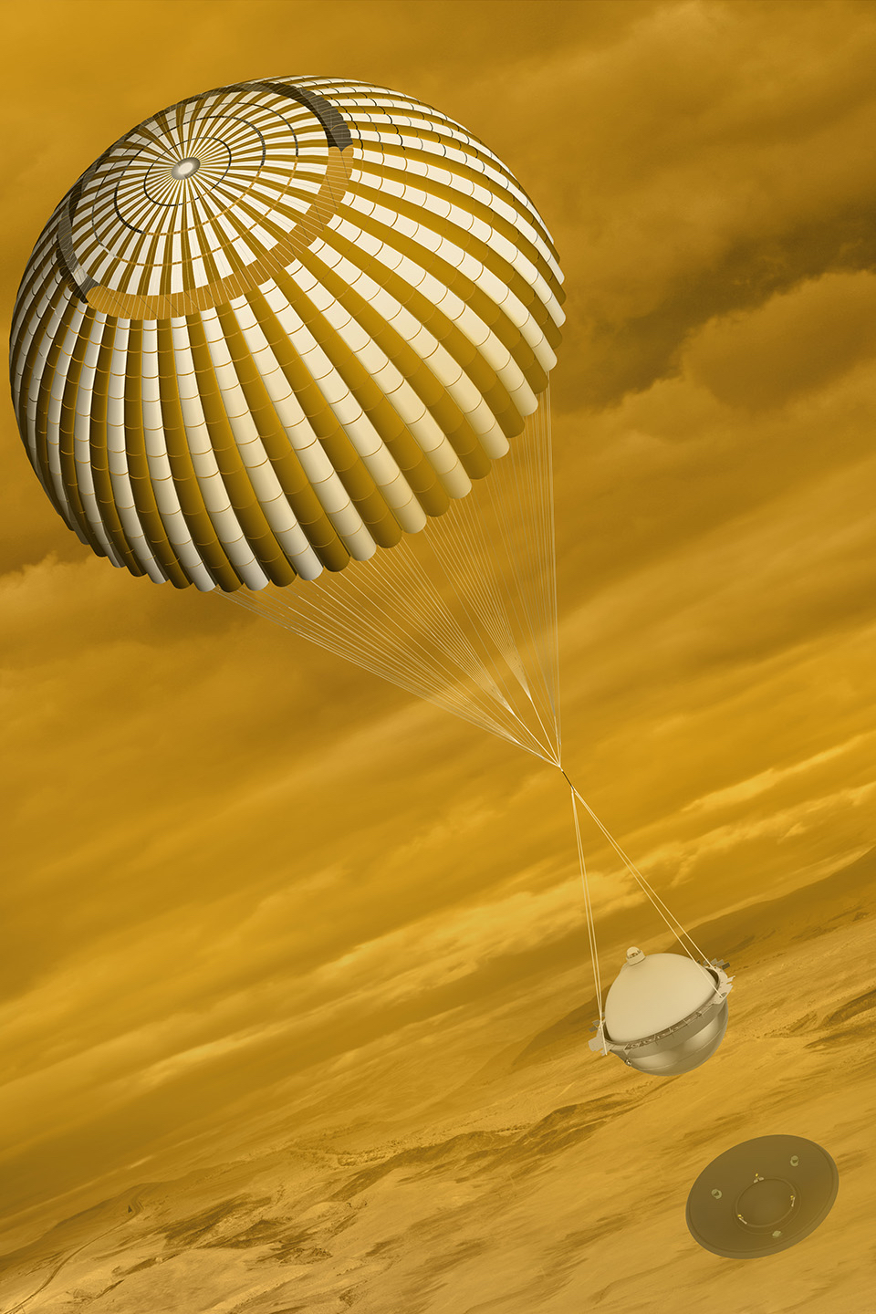 Artist's conception of DAVINCI probe